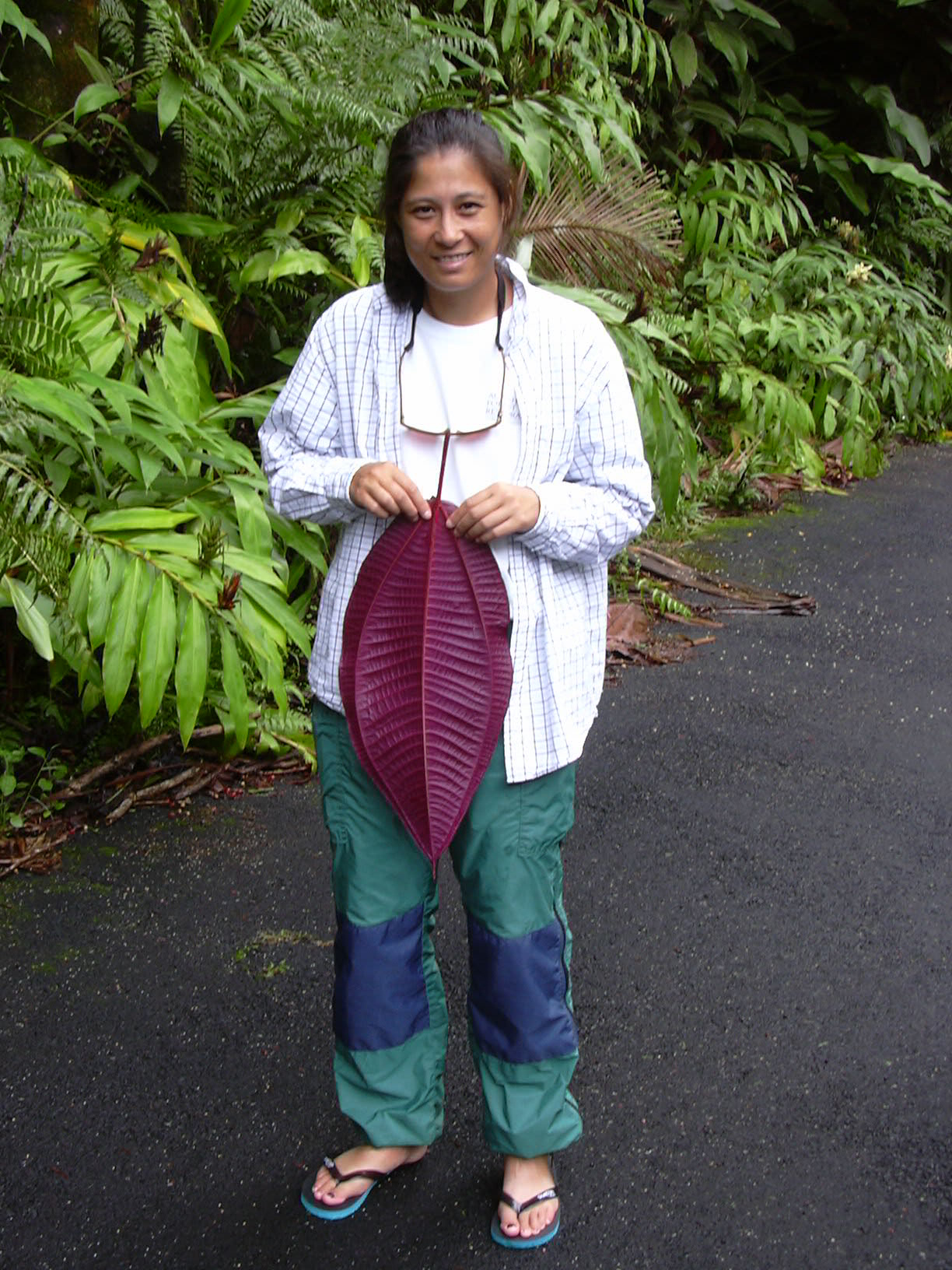 Miconia calvescens (leaf with Kim). Location: Hawaii, Hilo